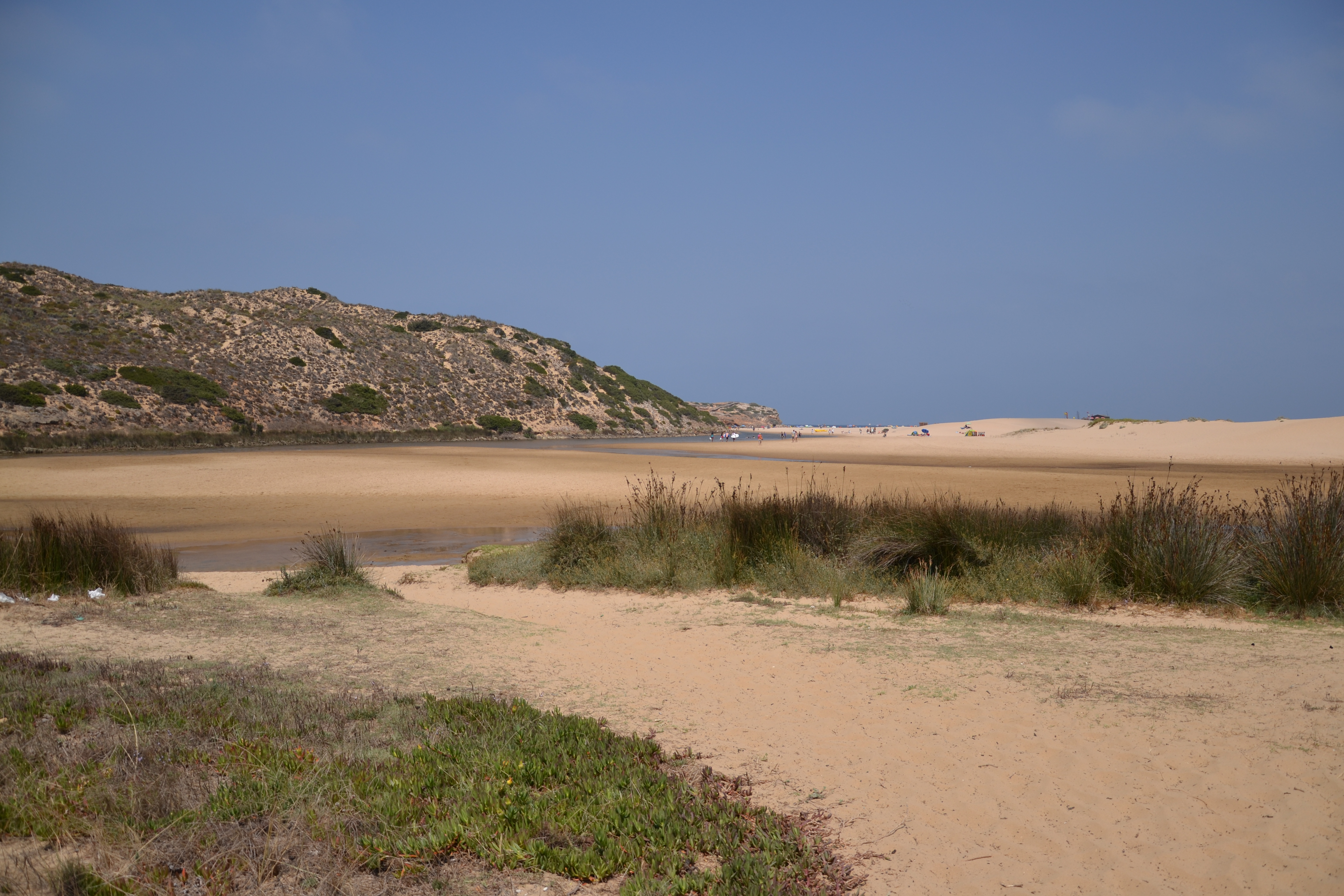 Costa vicentina, Algarve, Portugal. August 2016